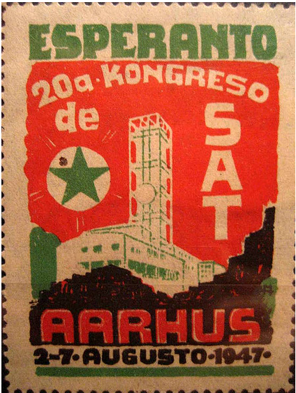 Stamp of the 20st congress of SAT in Aarhus, 1947.